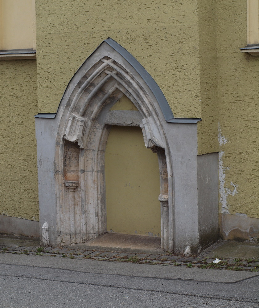 Entrance to former chapel “St. Severin” in Passau-Heining, Germany